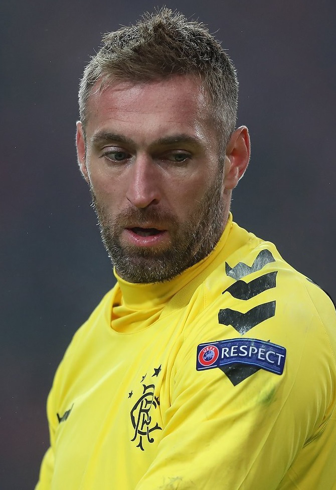 Allan McGregor with Rangers in an Europa League game against Spartak Moscow.